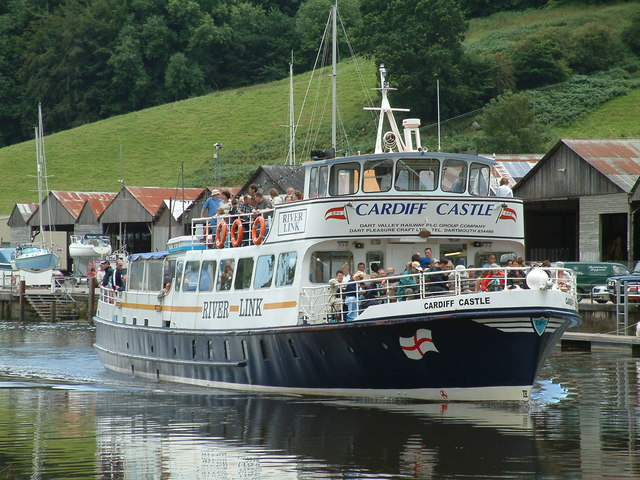 MV Cardiff Castle on the River Dart at Totnes, Devon, England. For more information see the Wikipedia articles Dart Pleasure Craft Limited, River Dart and Totnes.